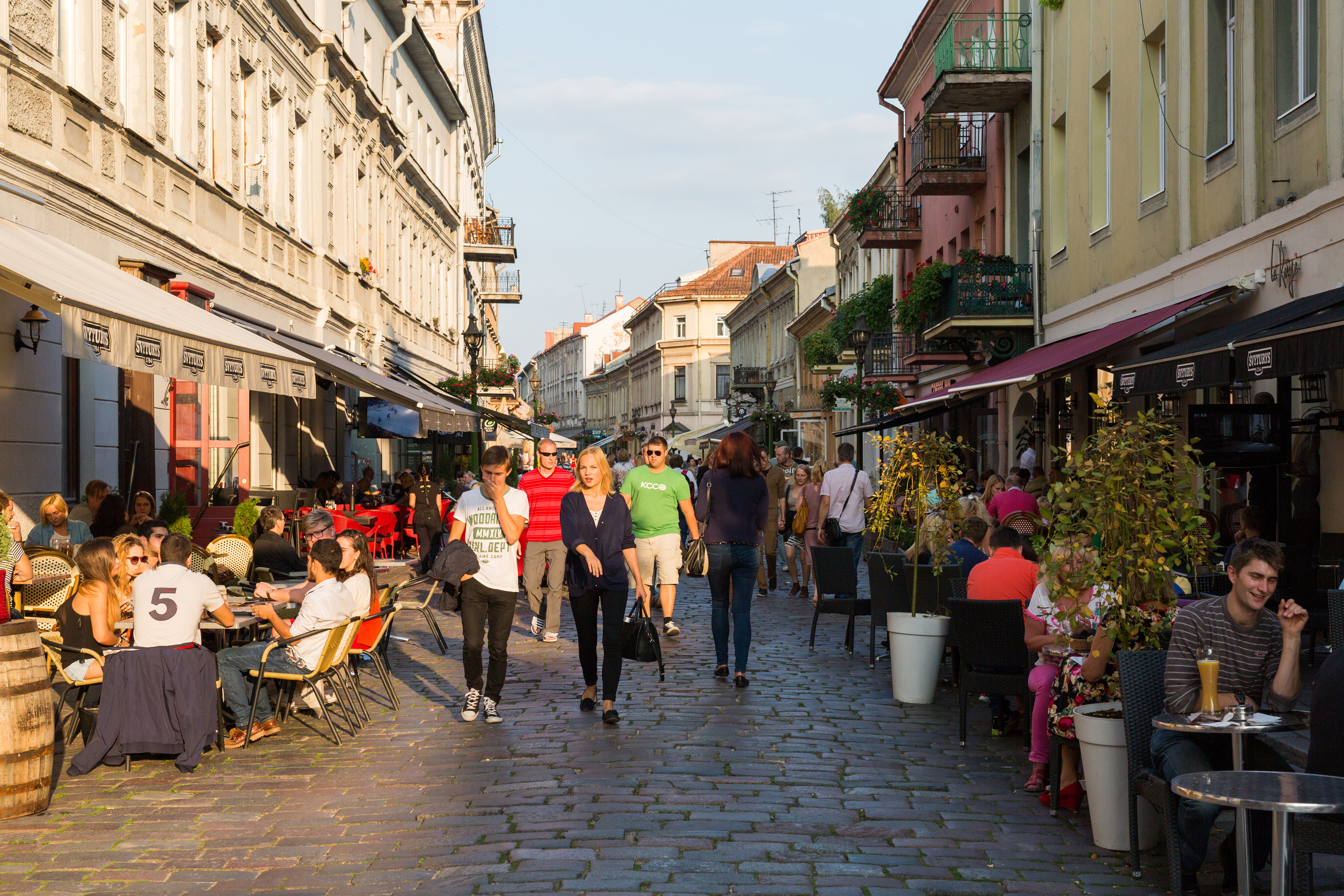 Street scene on Vilniaus Street looking east in Kaunas, Lithuania.